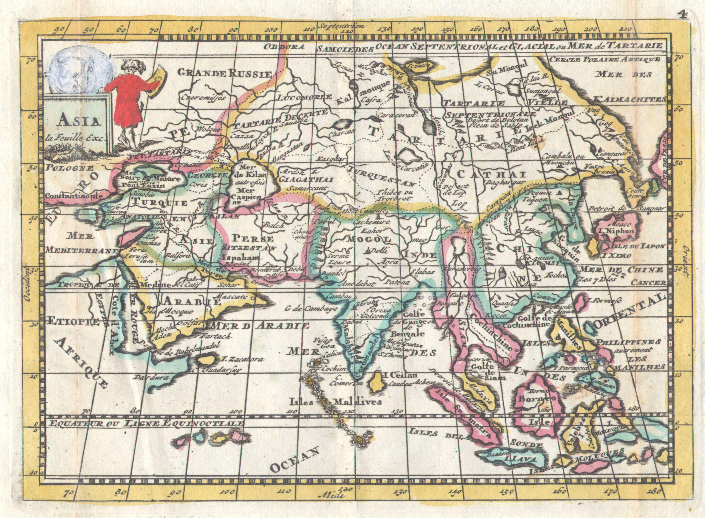 A very scarce, c. 1706, map of Asia issued by Daniel de La Feuille. Extends from the Mediterranean to Alaska and as far south as Java. Depicts the Mogol Empire in India, the kingdoms of Siam and Chochine, China, Arabia and Tartary. In China, the Great wall is shown. The Caspian Sea is wildly distorted, as is the Arabian Peninsula and Japan. North of Japan, Hokkaido is shown attached to the mainland. In central Asia, Tibet is labeled as are the Lop Nor salt flats in China. The Crimean peninsula is drawn as an island. In southeast Asia, a curious lake is drawn in what is today the Golden Triangle. The map suggests this body of water as a source for the Irrawaddi (Burma), Mekong (Vietnam), and Chao Phraya (Thailand) river systems. The allegorical title cartouche in the upper left quadrant features an elephant and what appears to be a young girl with a shield. This map was originally prepared for inclusion as chart no. 4 in the 1706 edition of De la Feuille's Les Tablettes Guerrières, ou Cartes choisies Pour la Commodité des Officiers et des Voyageurs, Contenant toutes les Cartes générales Du Monde, avec les particuliers des Lieux ou le Théatre de la Guerre se fait sentir en Europe.